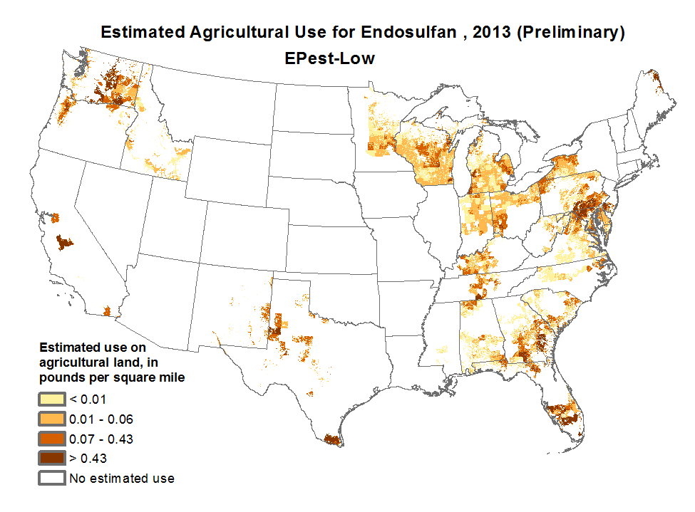 Endosulfan map of use, USA, 2013 (estimated)